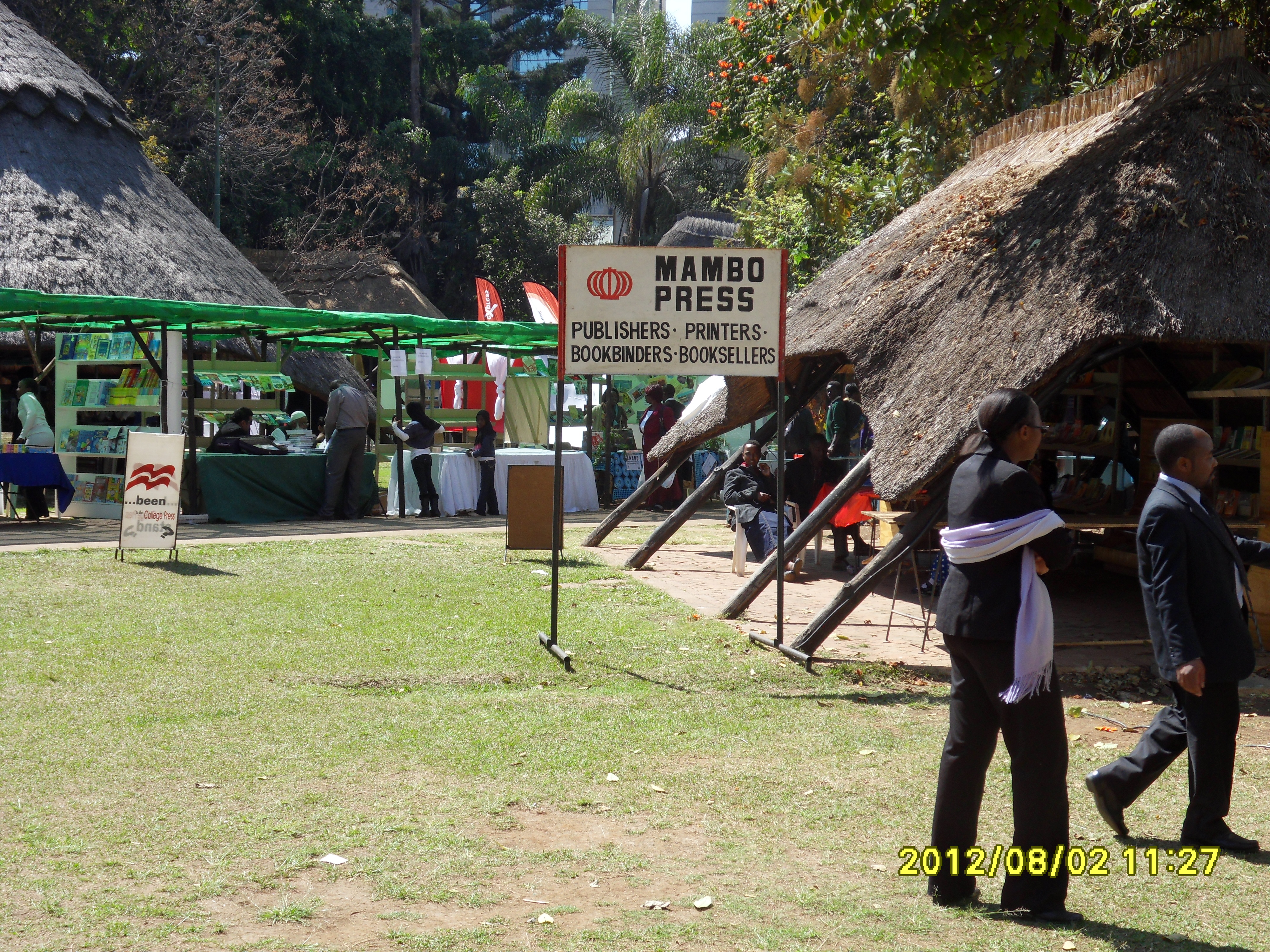 Zimbabwe Book Fair, 2 August 2012. Book stands by Mambo Press and other publishers.